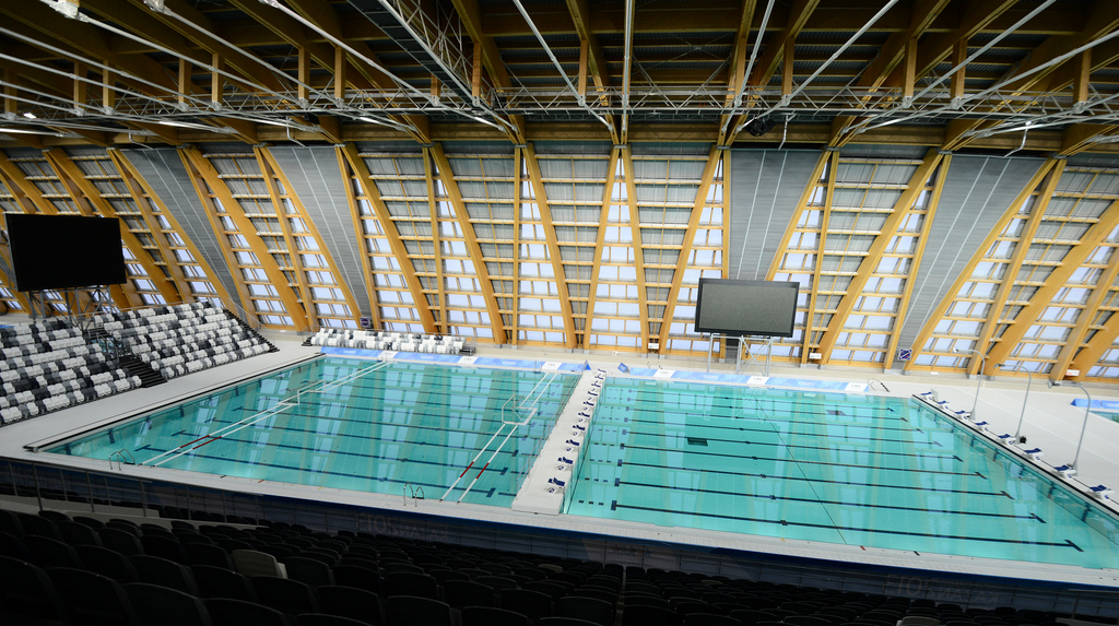 Aquatics Palace of Water Sports in Kazan, middle swimming pool